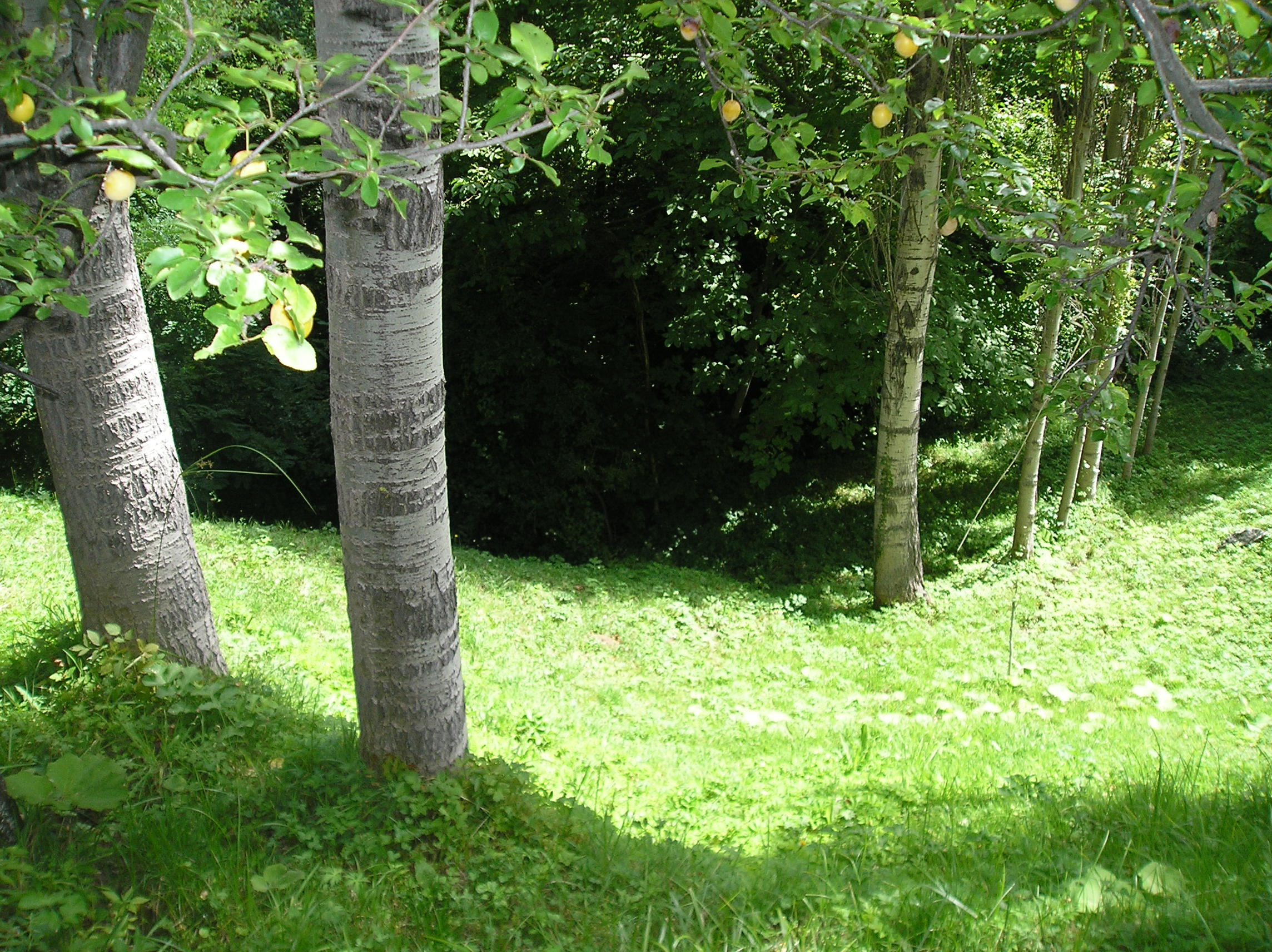 The forest near Blatets, Vinitsa Municipality, Republic of Macedonia